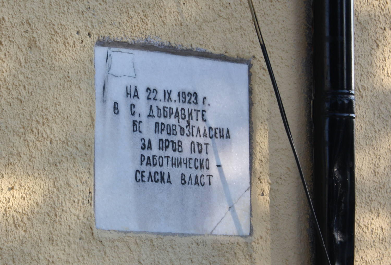 Memorial plate on the wall of the Culture club in Dabravite